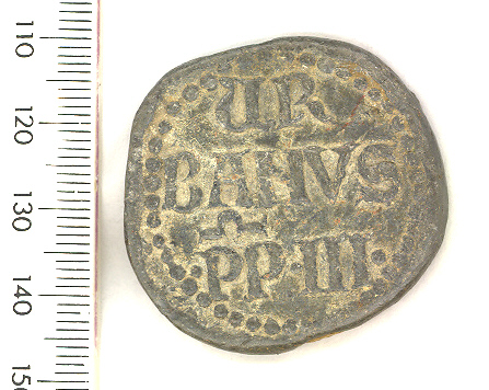 A cast lead circular papal bulla of Urban III, between 1185-7 (diameter: 37.9mm; thickness: 4mm; weight: 45.28g). On the 'recta' side of the bulla, the faces of Saints Peter and Paul are depicted with a cross between. Over the images appears the abbrievation 'SPA SPE'. Paul is depicted with a long beard but bald or with little hair, and Peter has a crimped beard with curly hair. On the 'verso' side, the name of the Pope is written in the nominative with his abbrievated title and ordinal number, distributed over three lines. Both faces of the bullae are encircled with a ring of dots or 'pearls'. The bulla is slightly worn but in a fari condition.The papal bulla is a formal seal of office used by the Popes to stamp and authenticate documents produced by the papal curia.